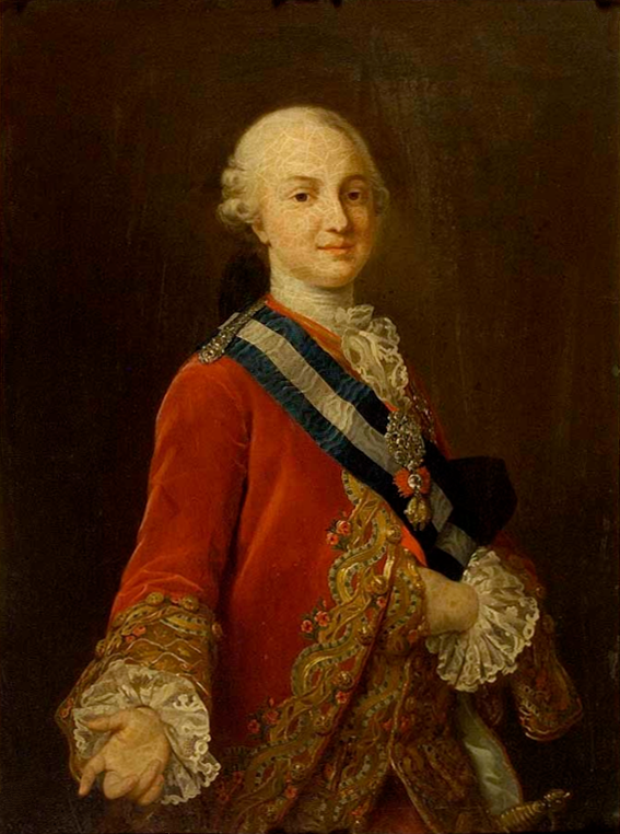 Ritratto di Ferdinando Duca di Parma